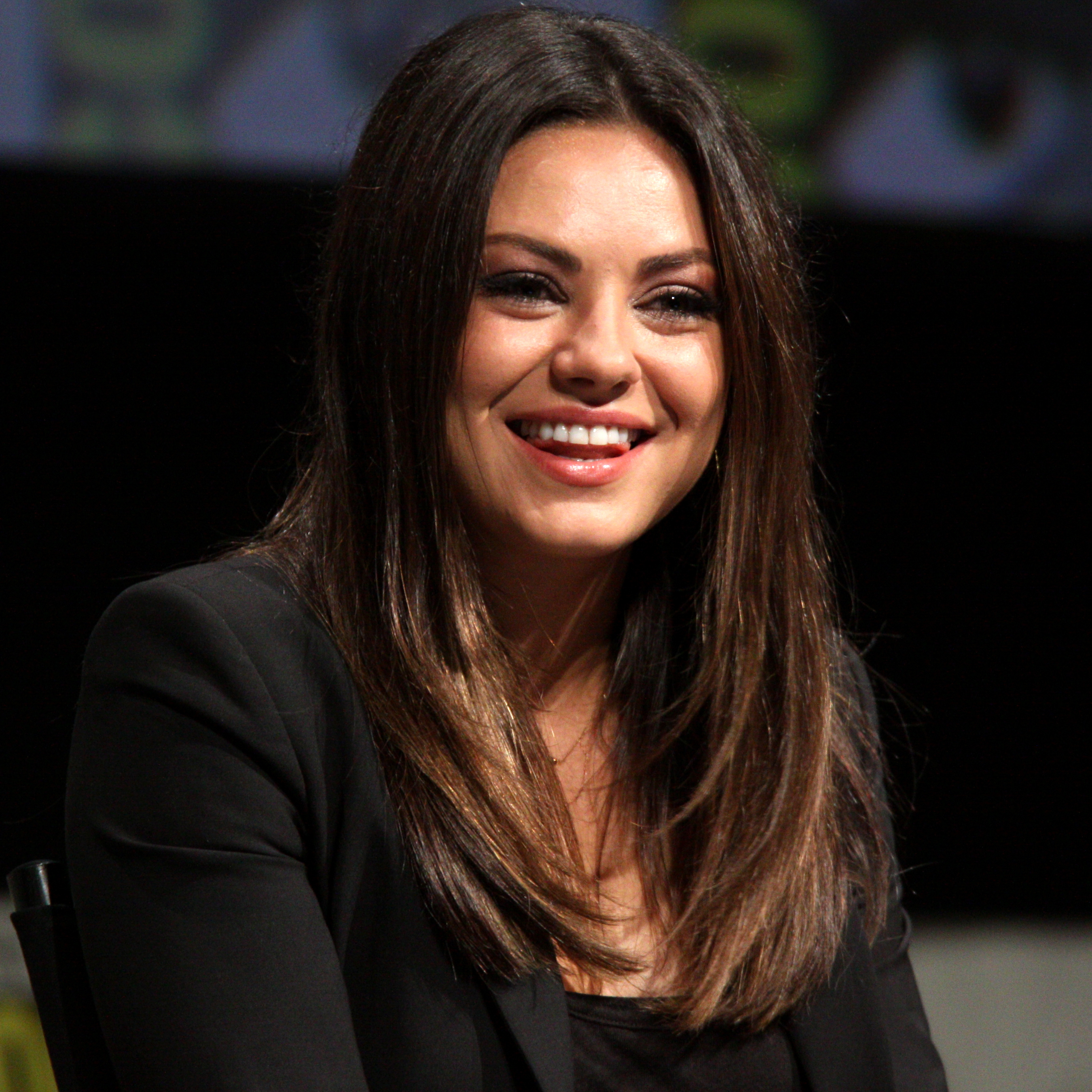 Mila Kunis speaking at the 2012 San Diego Comic-Con International in San Diego, California.